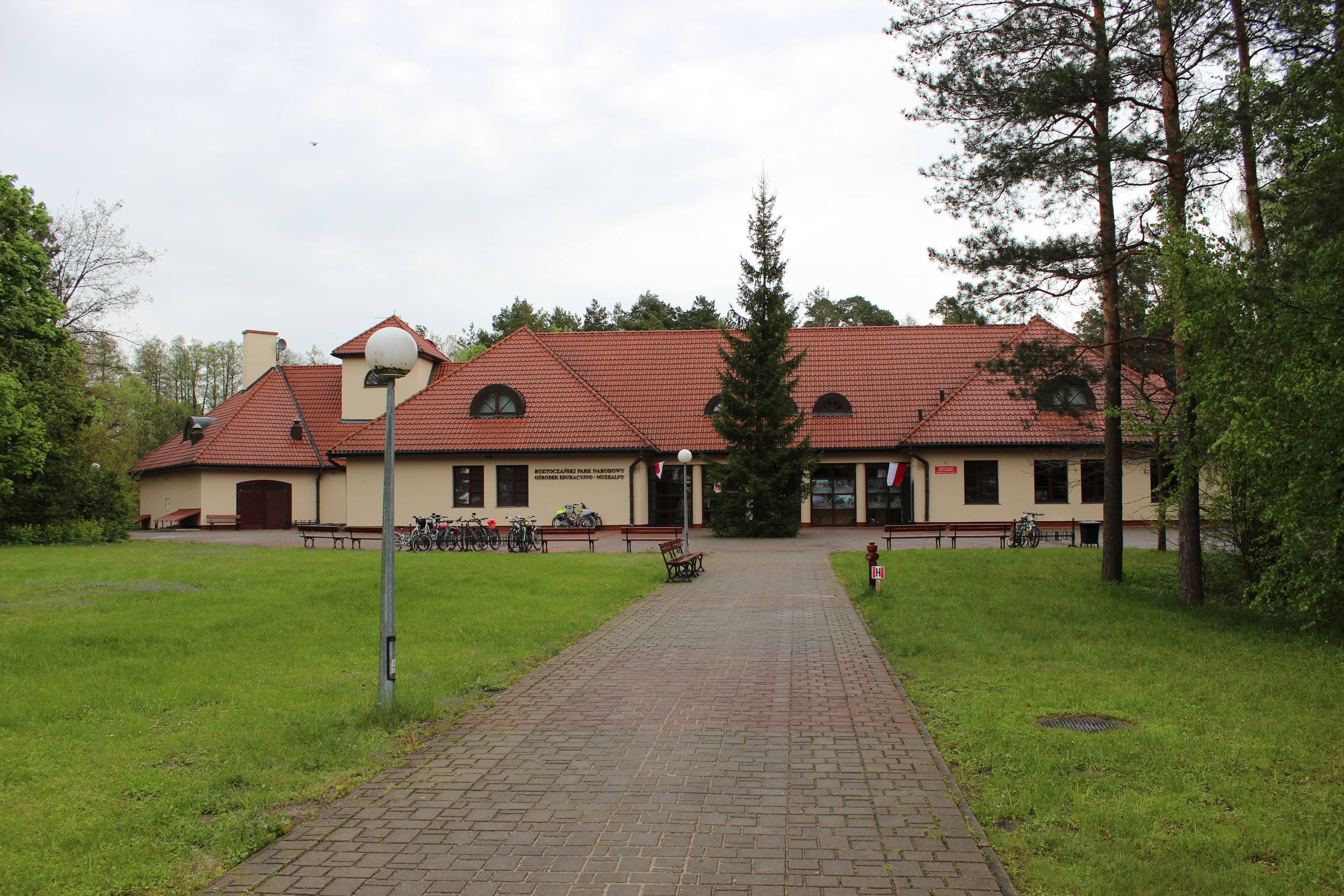 Roztocze National Park Educational Center and Museum